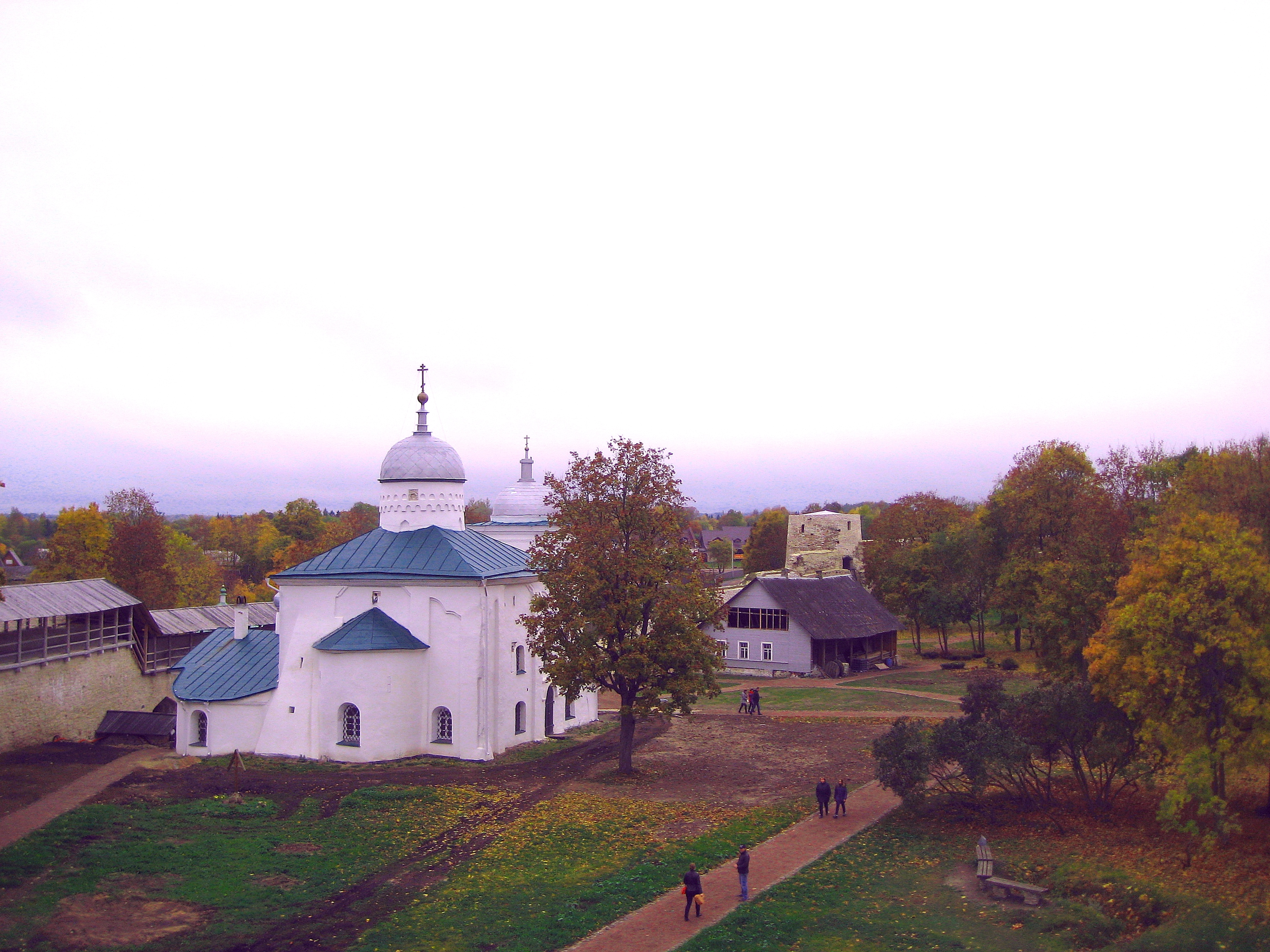 St. Nicholas Cathedral (St. Nicholas the Wonderworker's Church): Old Izborsk, Pechora District, Pskov Region